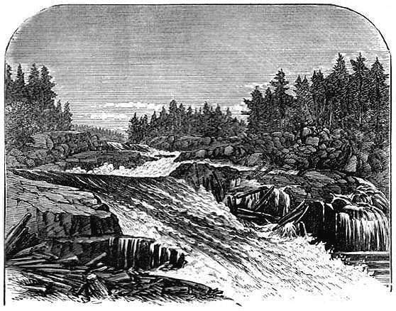 "Great Falls, Baldwin and Hiram" by Russell Richardson, a steel engraving from The Water-Power of Maine, by Walter Wells; published 1869 by Sprague, Owen & Nash; Augusta, Maine.